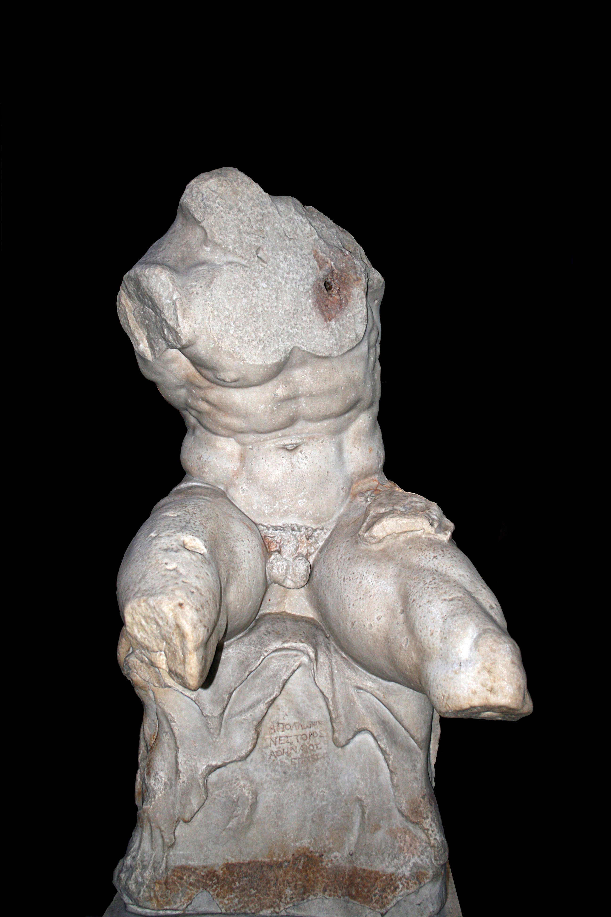 Torso of the Belvedere, neo-attic artwork that would be the Greek hero Ajax Telamonius suicide made by Apollonios, son of Nestor, Athenian folowing the inscription on the pedestal. - Museo Pio-Clementino (Inv. 1192), Vatican Museums, Rome.